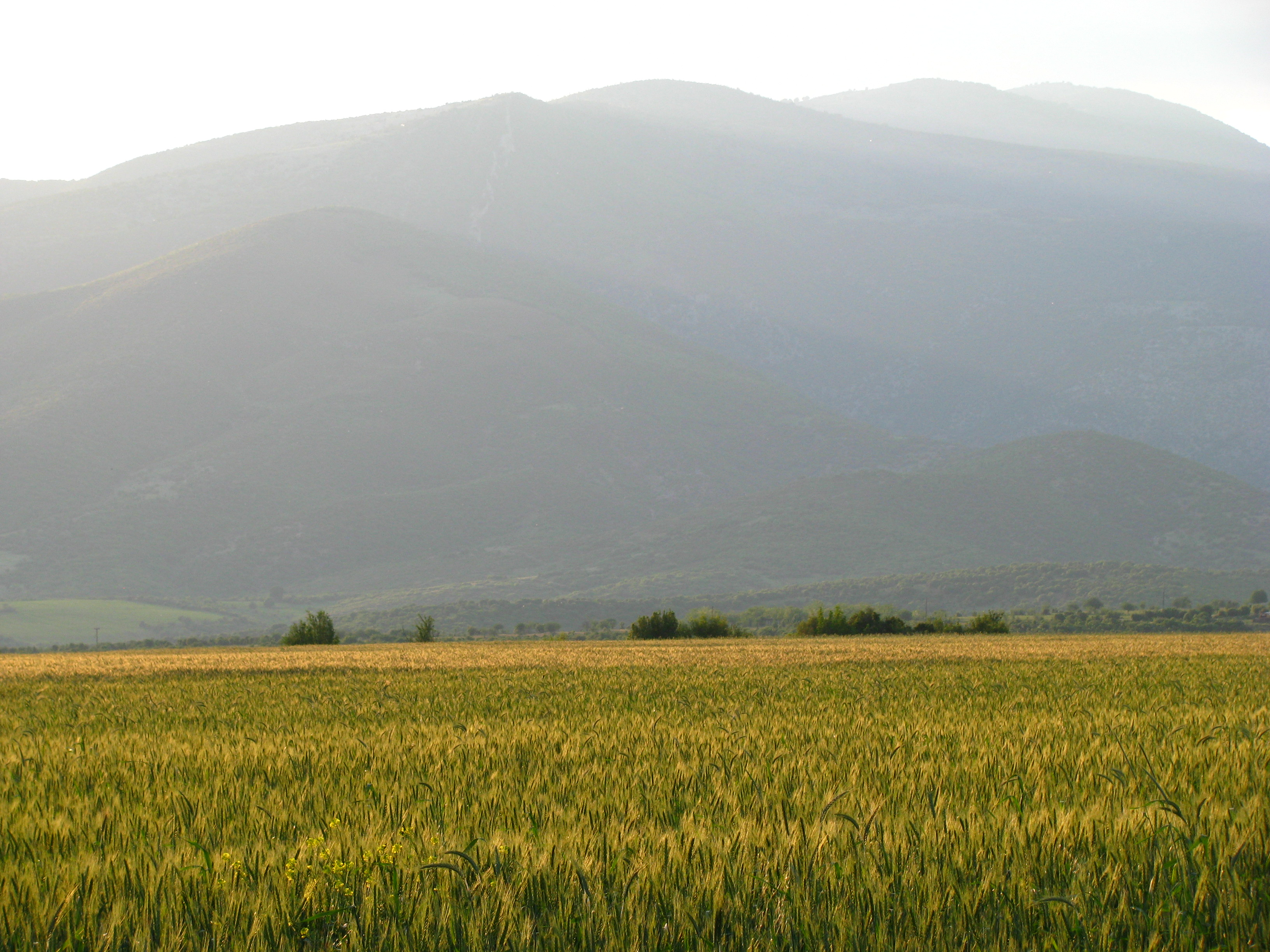 Paiko Mountain.